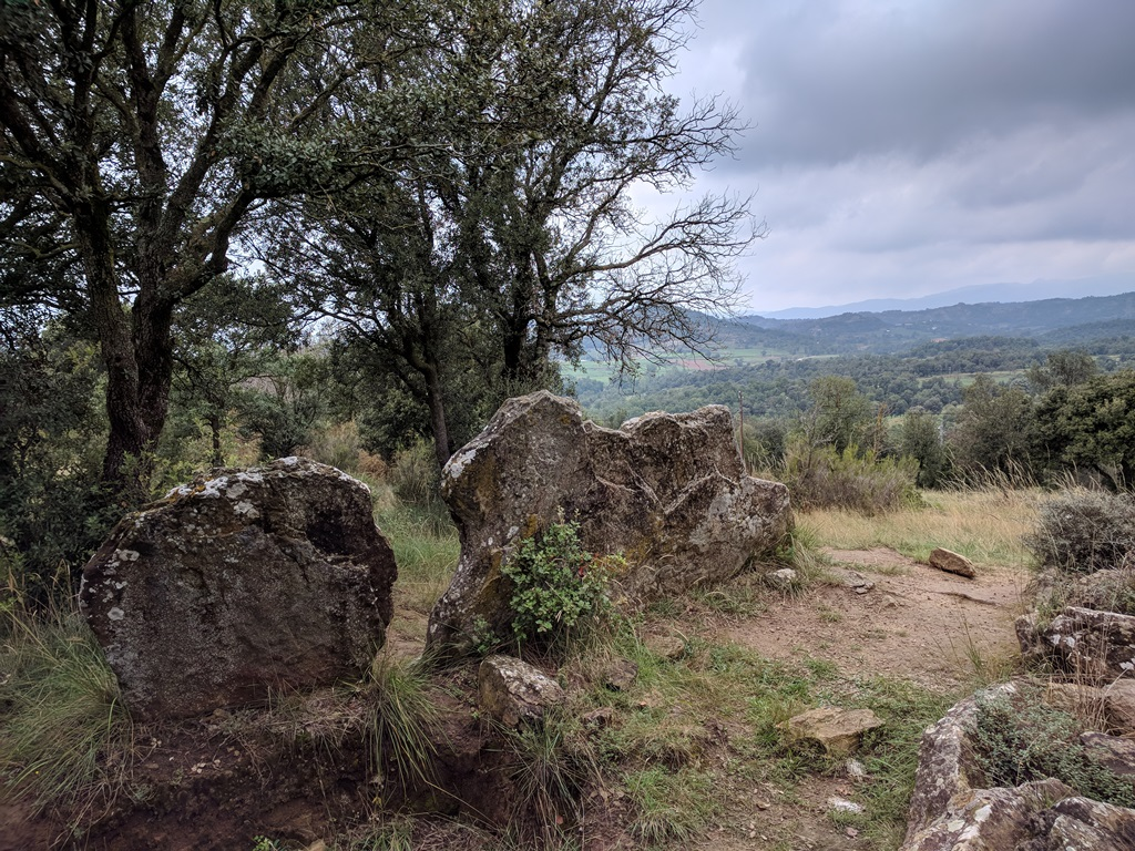 Dolmen Puigsespedres